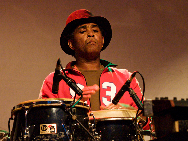 Biboul Darouiche, Offiside Festival 2008, Geldern/Germany